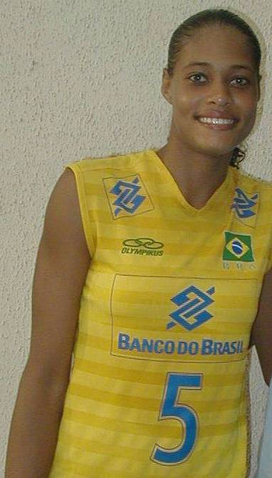 Adenizia da Silva during the 2005 Pan-American Cup